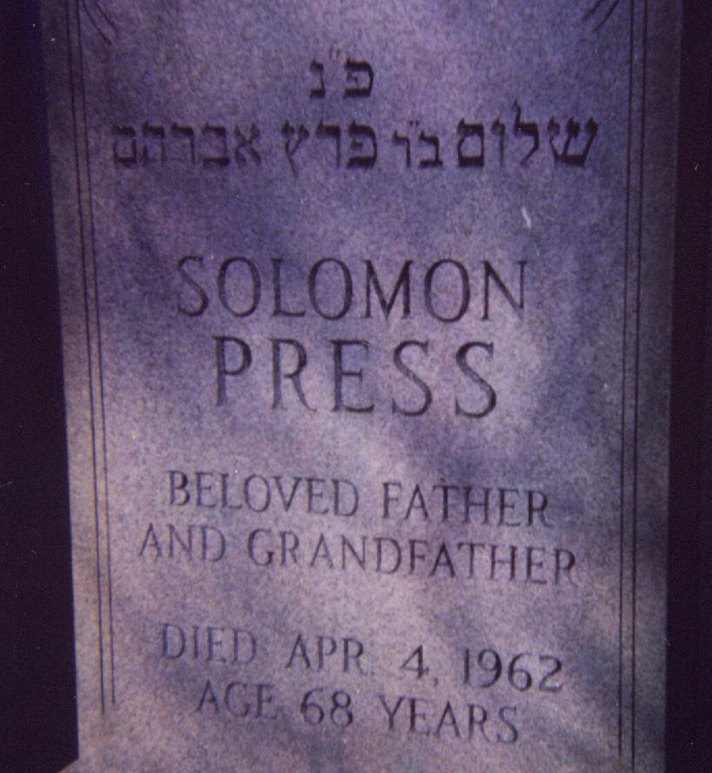 Gravestone of Solomon Press, died April 4, 1962 at age 68, showing Hebrew name Peretz (פרץ)